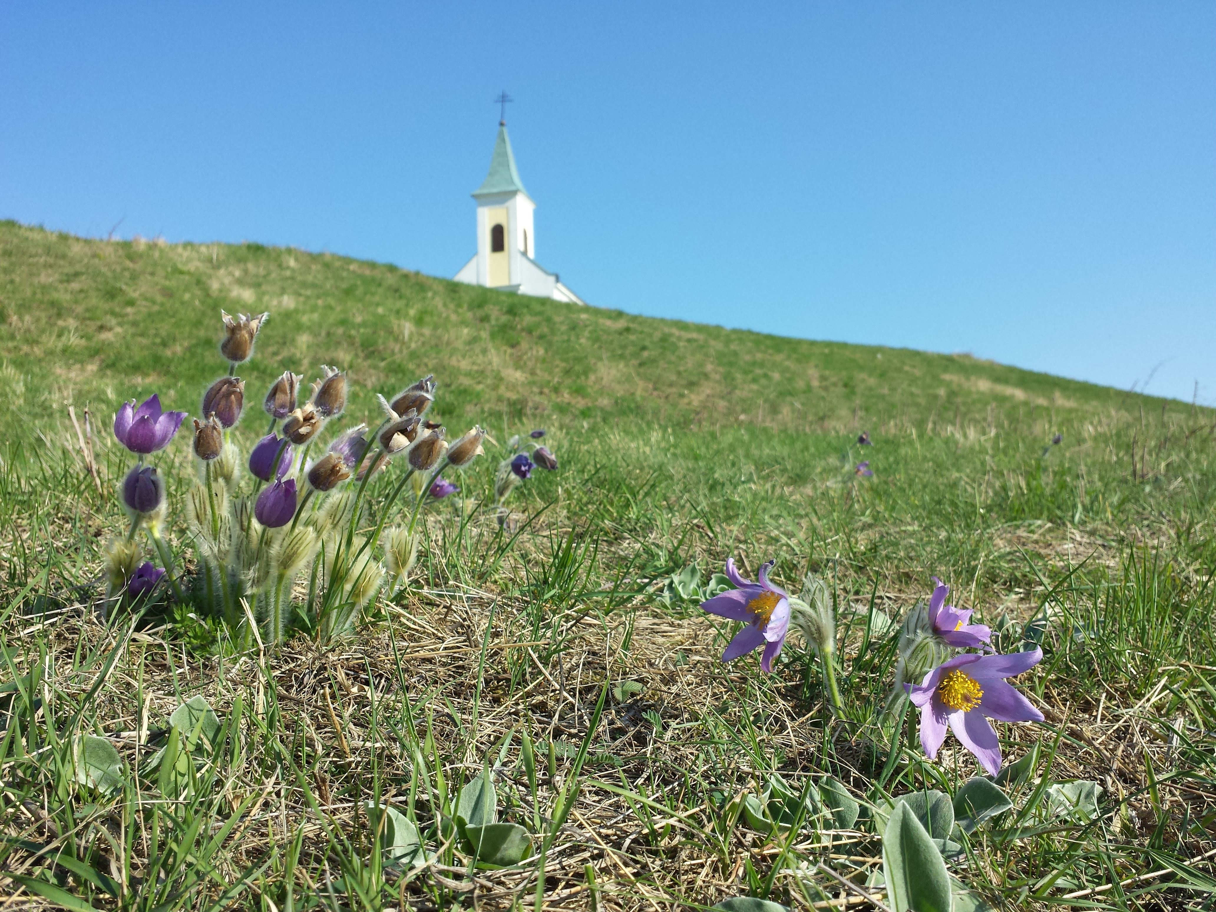 Habitus Taxonym: Pulsatilla grandis ss Fischer et al. EfÖLS 2008 ISBN 978-3-85474-187-9 Location: Michelberg, district Korneuburg, Lower Austria - ca. 400 m a.s.l. Habitat: semi-dry grassland